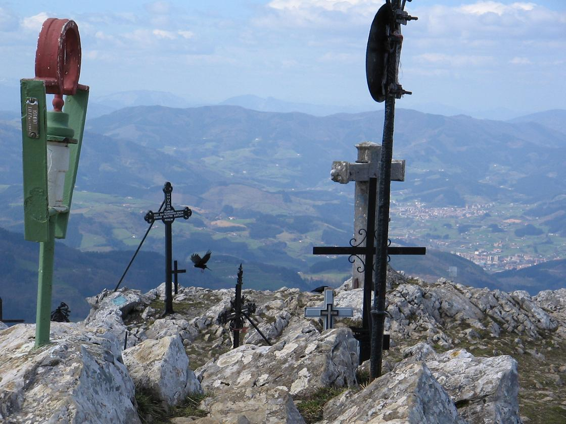 Crosses at the top of Hernio, towns Azkoitia and Azpeitia far in the valley